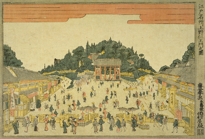 Color woodblock print of Famous Views of Niō-mon gate in Ueno